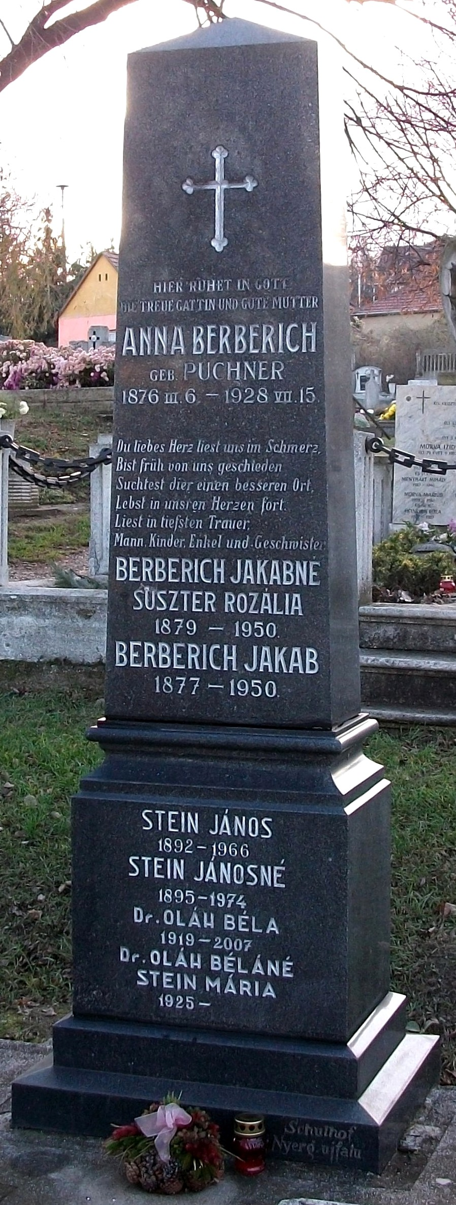 Gravestone of a German-Hungarian family, Dorog, Hungary